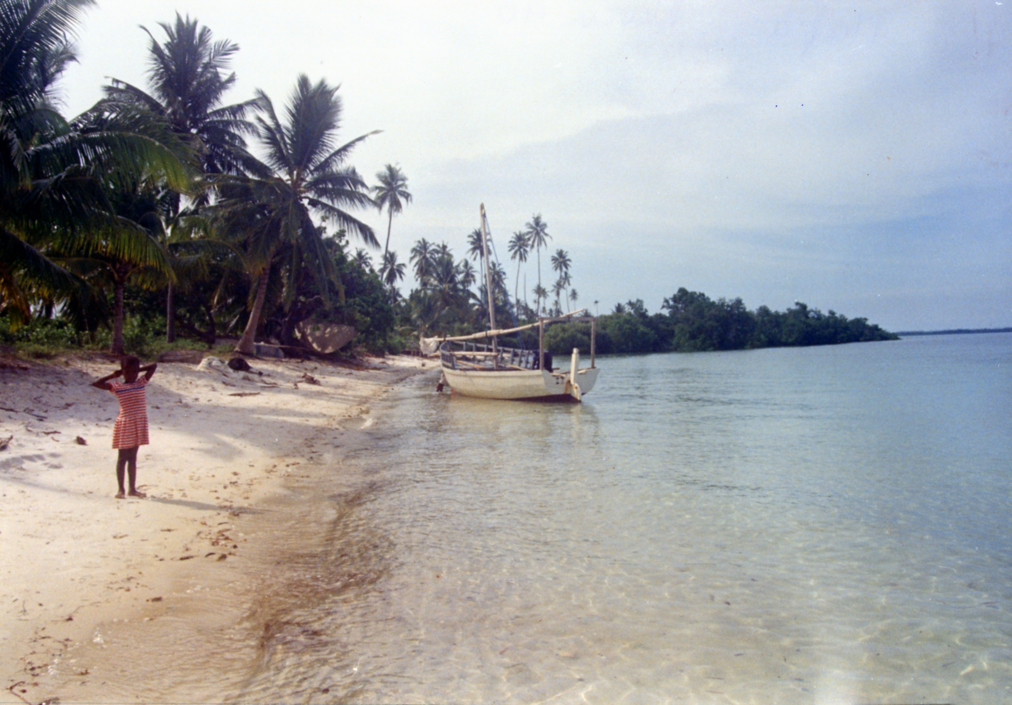 Beach on Mafia Island, Indian Ocean, Tanzania.